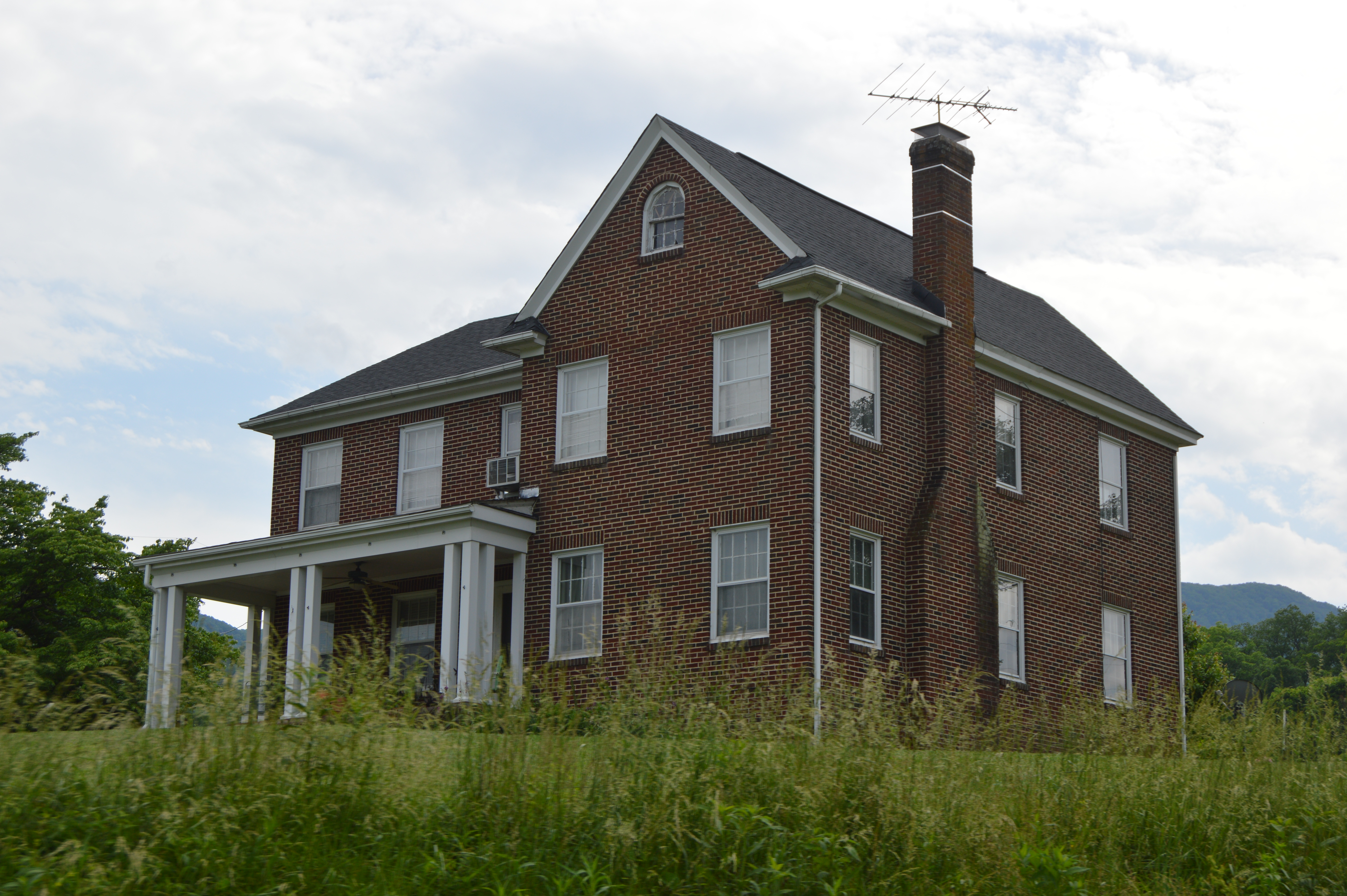 Northern and eastern sides of the house on Apple Road at Naff Road, just northwest of Boones Mill, in Franklin County, Virginia, United States. Built in 1937, it is part of the Cahas Mountain Rural Historic District, a historic district that is listed on the National Register of Historic Places.